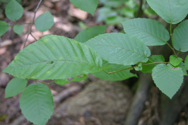 Leaves on a small branch of the American Hornbeamen (Carpinus caroliniana en ). Species identification performed by the Pennsylvania Department of Conservation and Natural Resources. Photo taken at the Ridley Creek State Park.